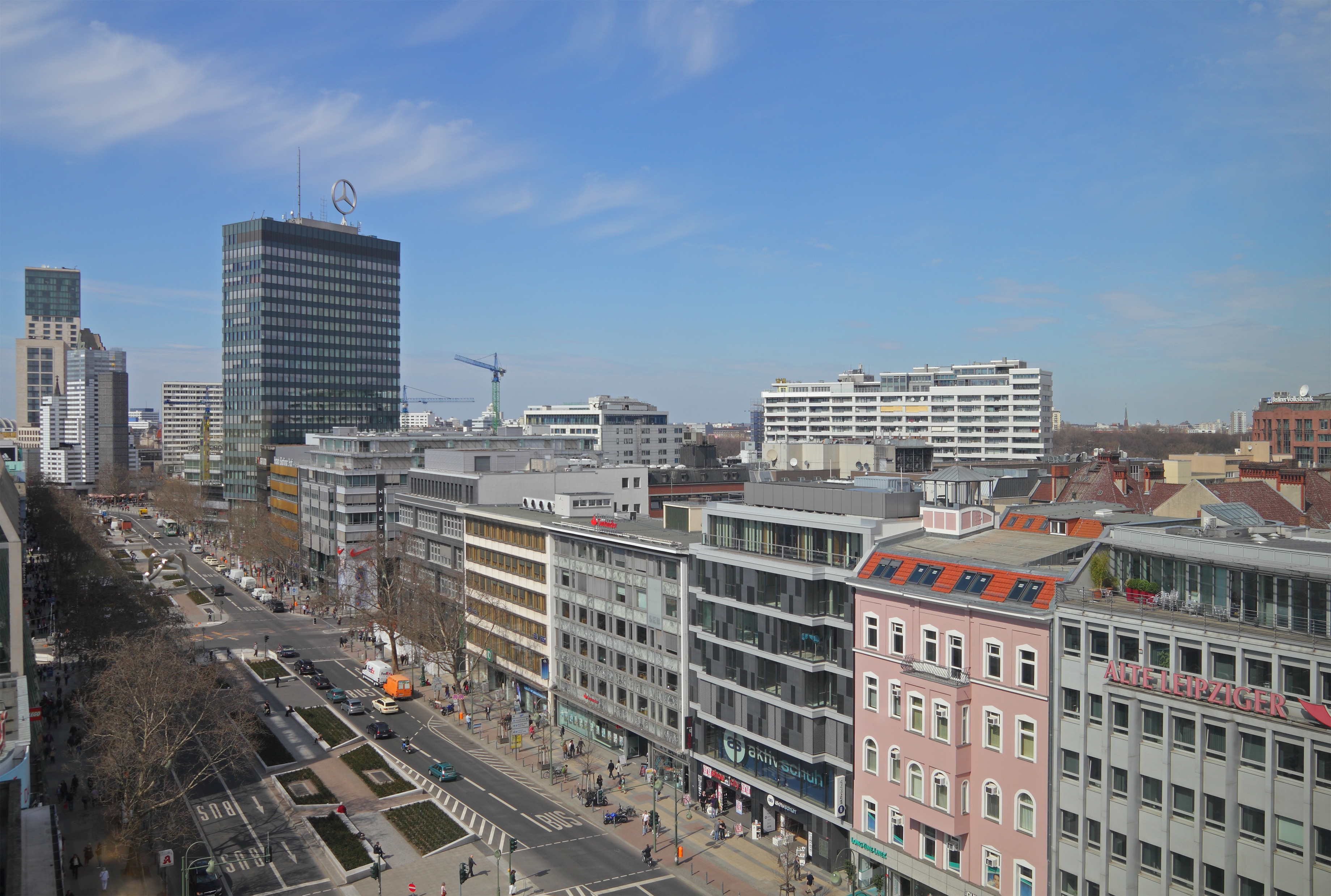 Tauentzienstraße. Berlin-Charlottenburg